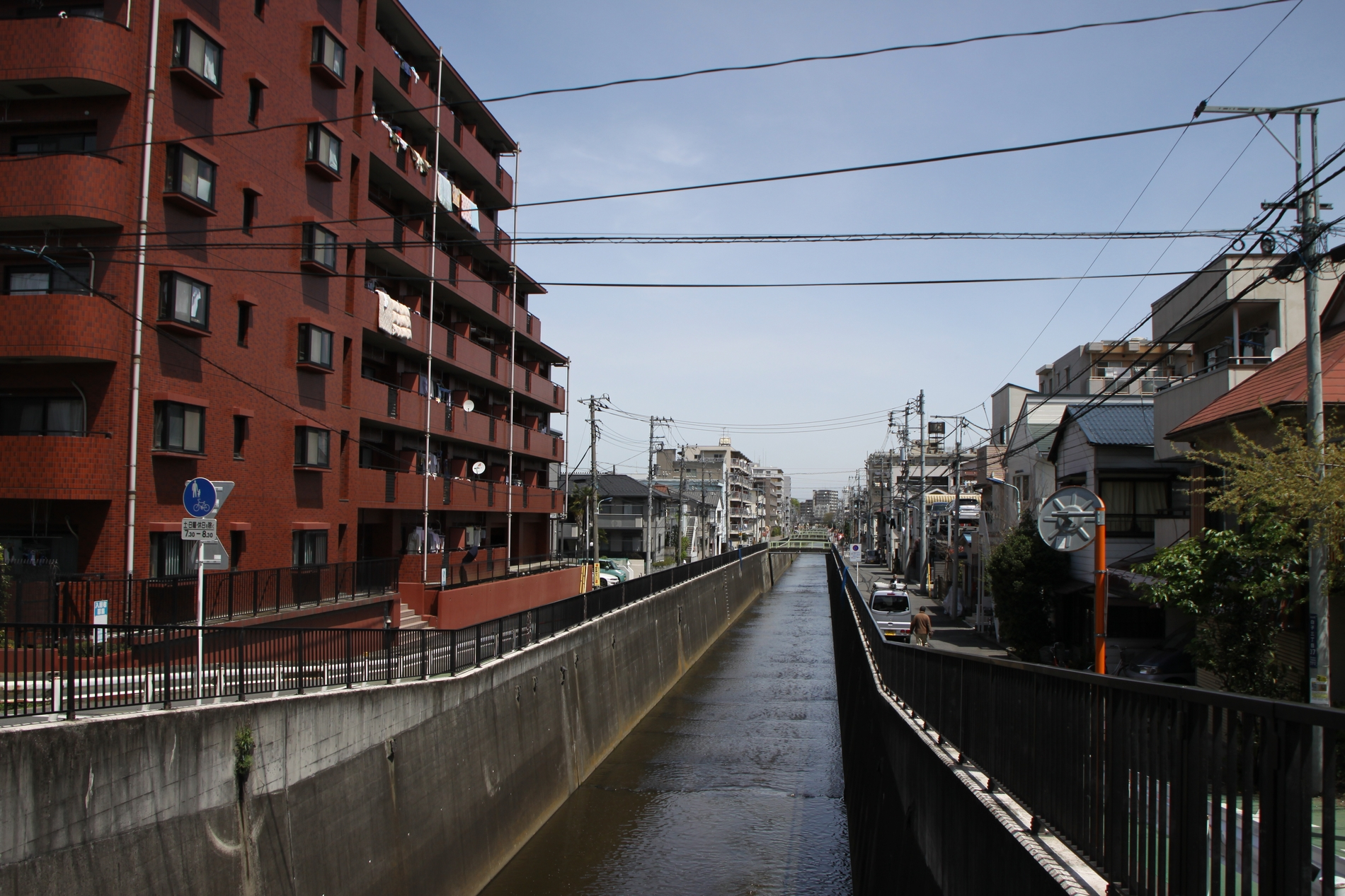 A view northeast and downstream of Shirako River, seen from Teramae-bahi in Shirako 3-chōme, Wako. See the map.Canon EOS 50D